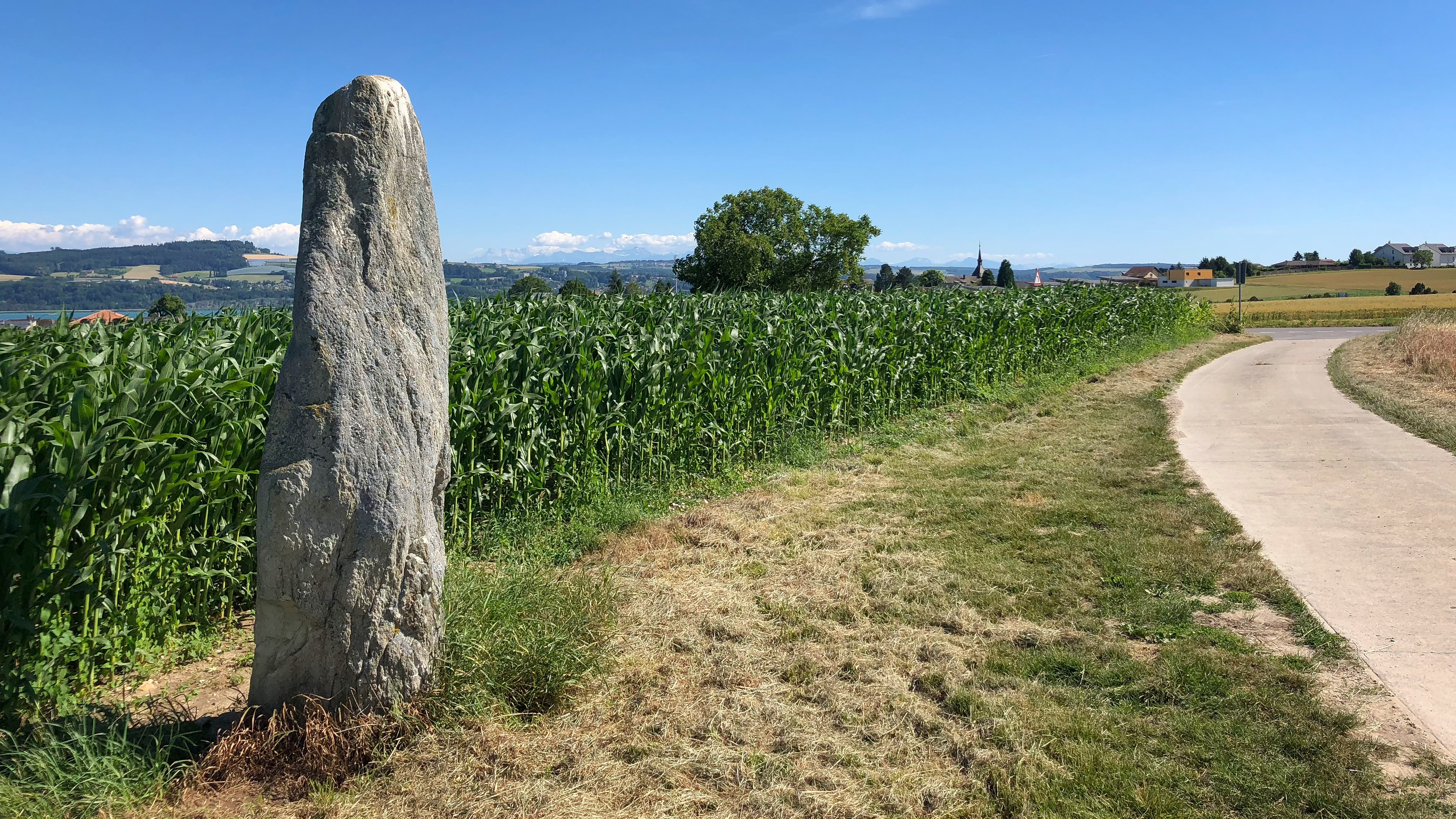 Menhir in the high of Grandson, VD, Switzerland From the village, take the road to Fiez, after the speedway bridge, take the first path on your right (not for cars) In the Background: village of Grandson Right: Path to the road to Fiez (right), Grandson (left)